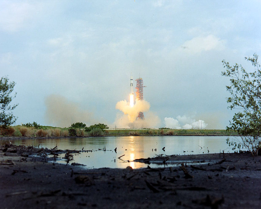 The Skylab 2 crew, consisting of astronauts Charles Conrad Jr., Joseph P. Kerwin and Paul J. Weitz, inside the command module atop a Saturn IB launch vehicle, heads toward the Skylab space station in Earth orbit. The command module was inserted into Earth orbit approximately 10 minutes after liftoff. The three represent the first of three crews who will spend record-setting durations for human beings in space, while performing a variety of experiments.